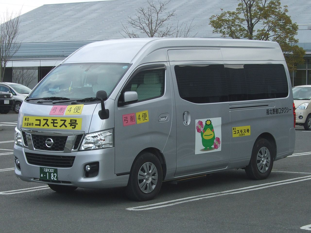 Kurume City Kitano Area community bus "Cosmos" / Operator:Kitano Inokuchi Taxi / Location:Kosmosumairu Kitano, Kurume City, Fukuoka, Japan.